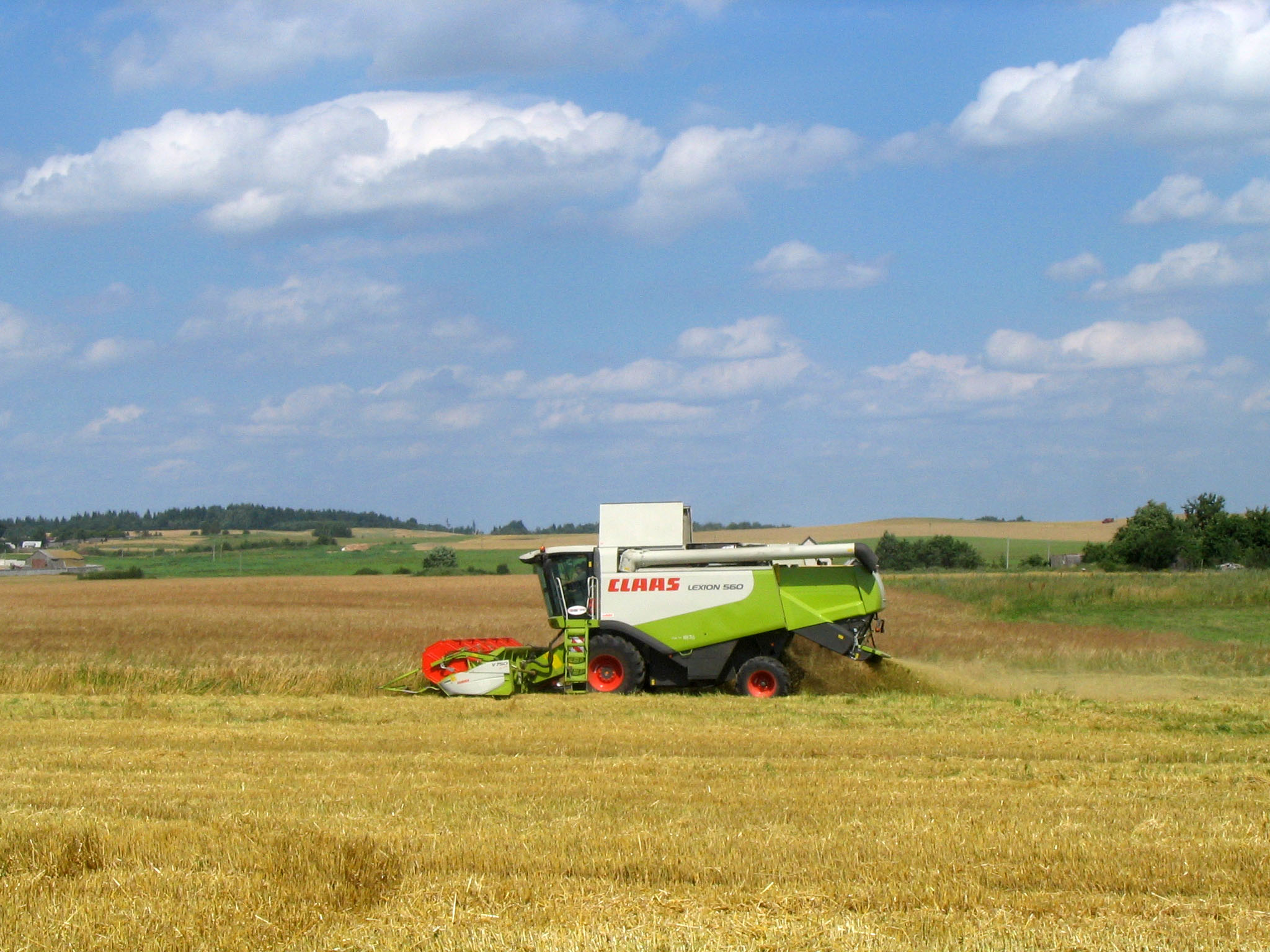 Claas Lexion 560 combine harvester in Minsk region, Belarus